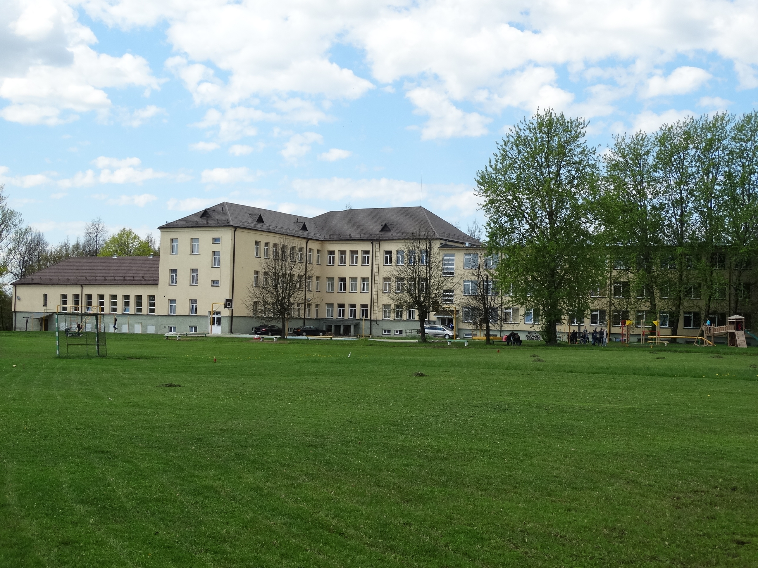 Gymnasium, Eišiškės, Šalčininkai District, Lithuania